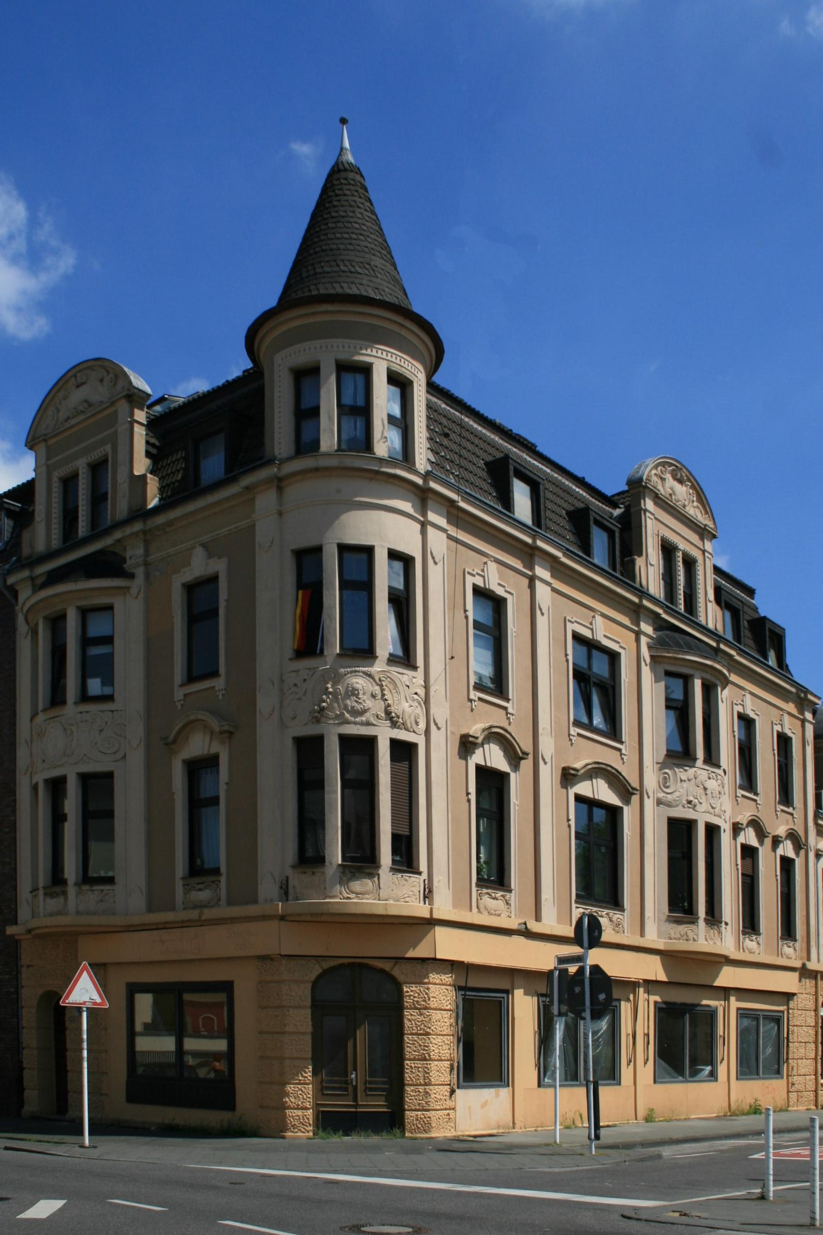 Cultural heritage monument No. K 010 in Mönchengladbach